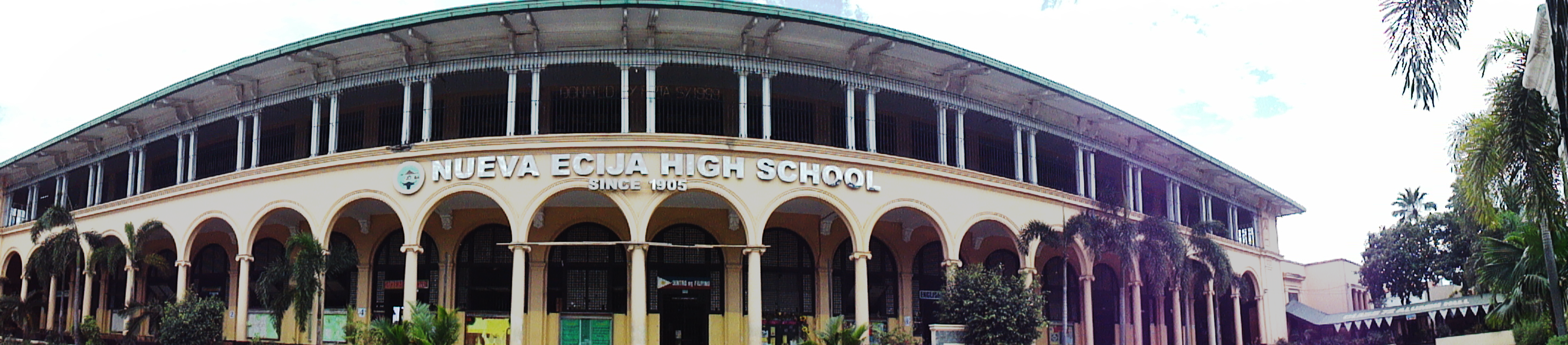 Nueva Ecija High School